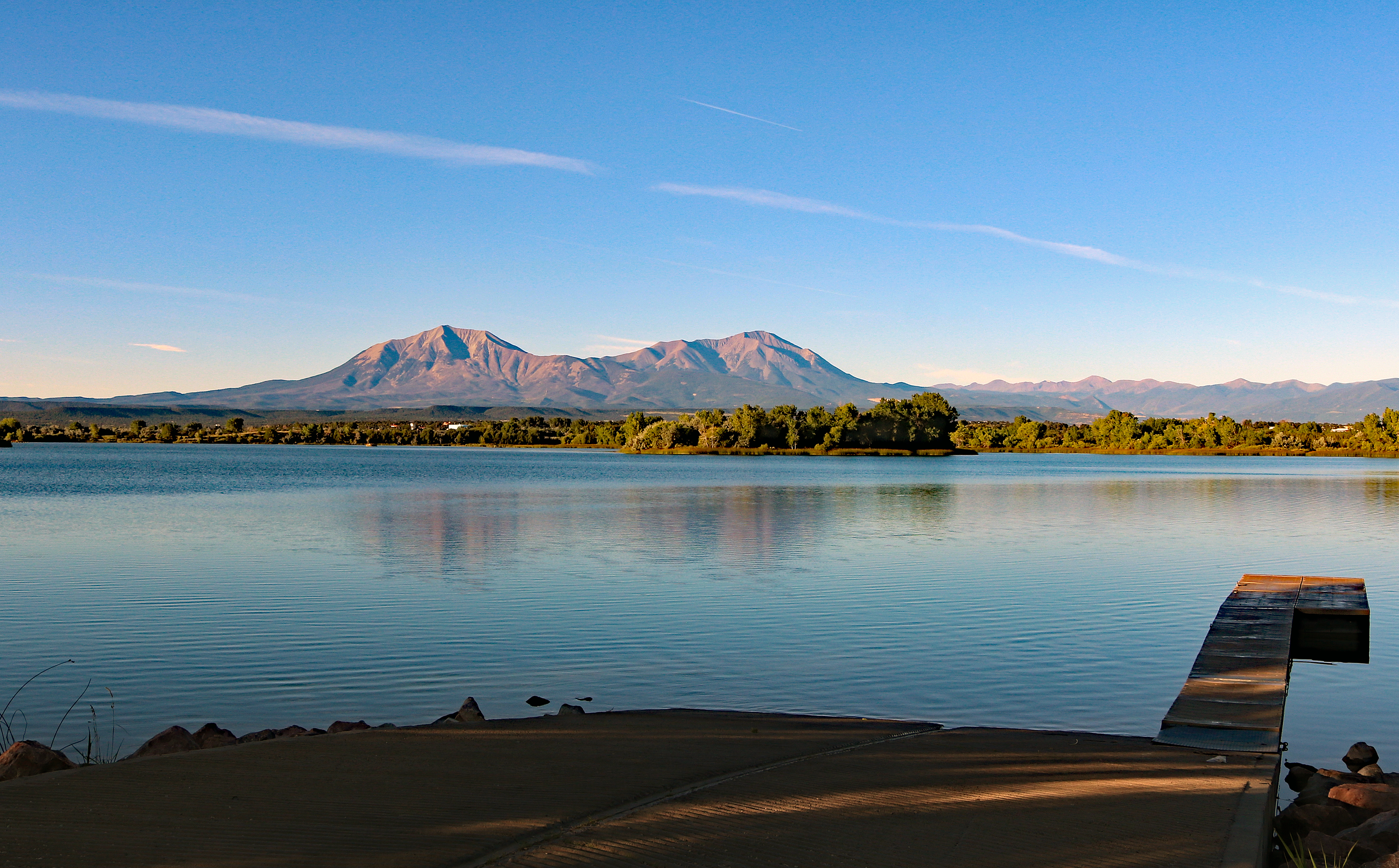 A view of the boat ramp at Horseshoe Lake, Lathrop State Park, in Huerfano County, Colorado. The Spanish Peaks are in the background.